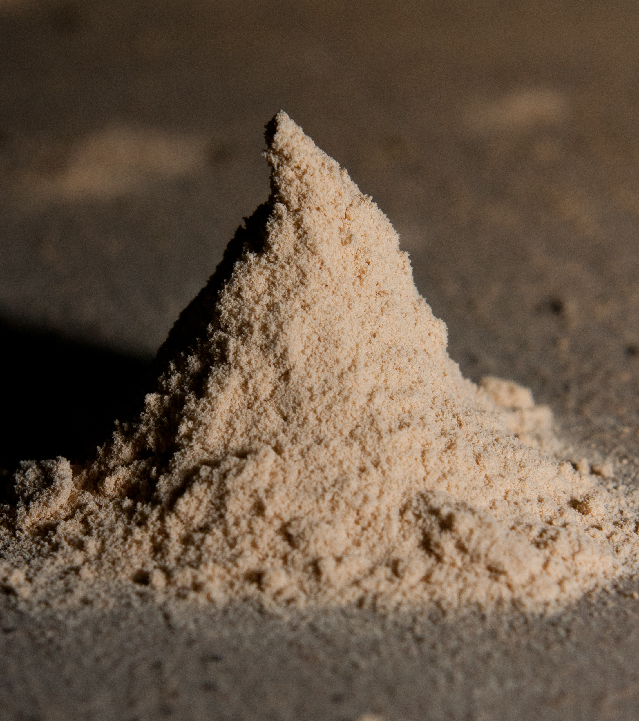 A pile of wood dust made by larvae of Anobium punctatum about 5cm in height.